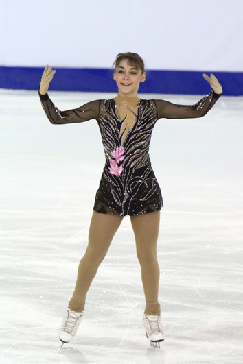 Sila Saygi at the 2010 World Junior Figure Skating Championships.